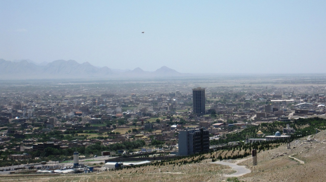 View of Herat from a hill.